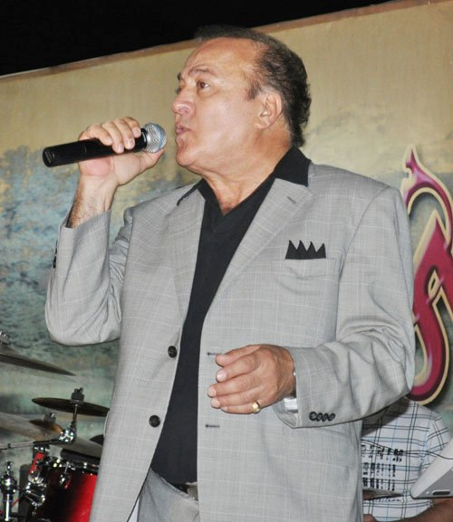 Assyrian singer Evin Agassi performing at a concert in Al Hassakah.